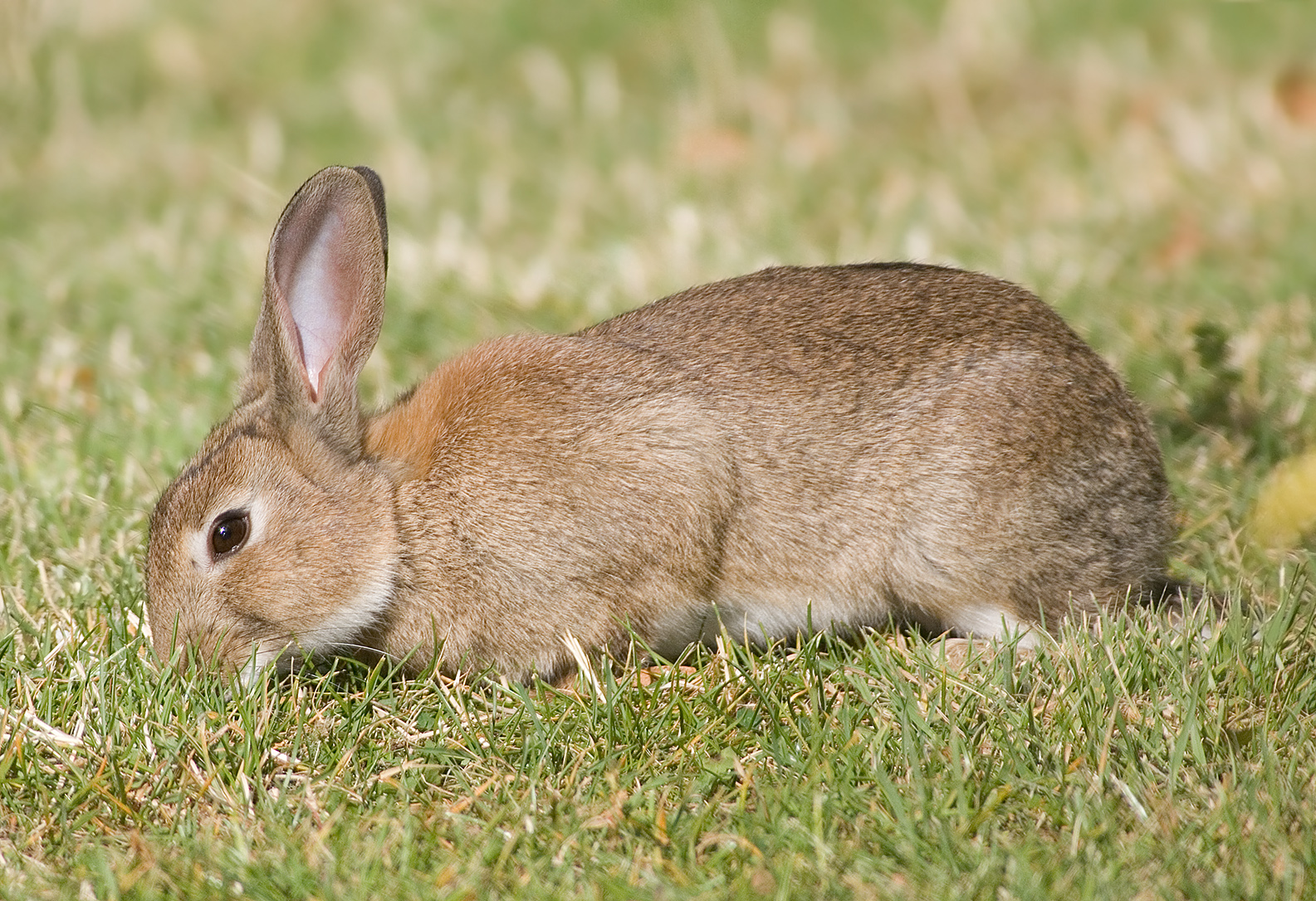 European Rabbit (Oryctolagus cuniculus) Tasmania, Australia